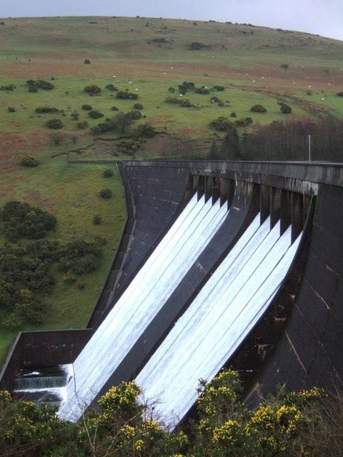 Meldon Dam An unnatural quality to the water pouring down the spillways on the face of the dam. On the far side, sheep sprinkle the moorland climbing Longstone Hill. The dam was built in 1972 across the West Okement valley.